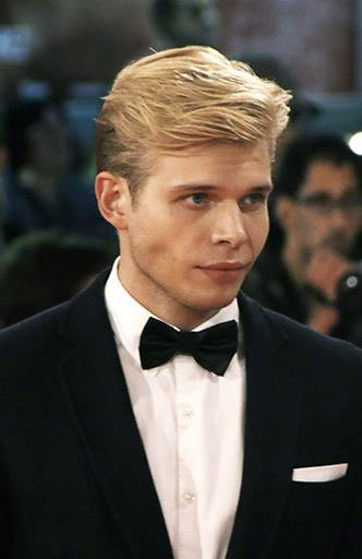 Actor Daniel Horvath in San Sebastian International Film Festival